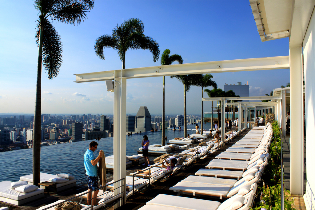 View of the Marina Bay Sands Skypark.